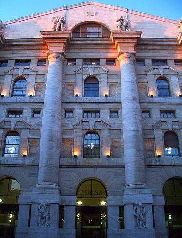 Palazzo mezzanotte, Milan